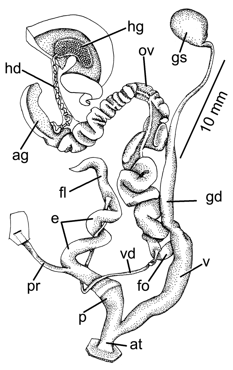 Drawing of a reproductive system of Amphidromus principalis. Scale bar is 10 mm. Abbreviations: ag, albumin gland; ap, appendix; at, atrium; e, epiphallus; fl, flagellum; fo, free oviduct; gd, gametolytic duct; gs, gametolytic sac; hd, hermaphroditic duct; hg, hermaphroditic gland; o, oviduct; p, penis; pp, penial pilaster; pm, penial retractor muscle; pv, penial verge; v, vagina; vd, vas deferens; vp, vaginal pilaster.